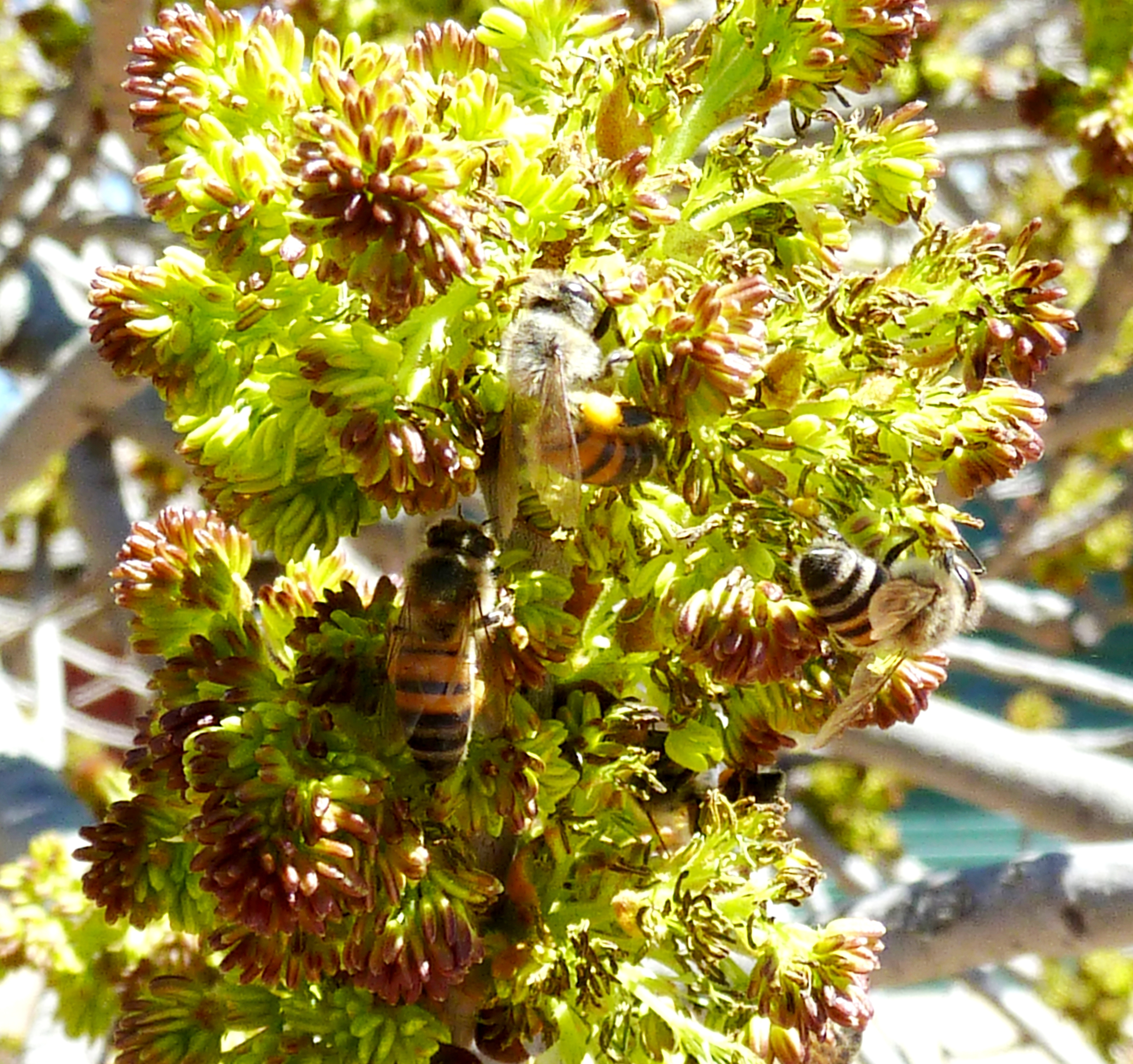 African honey bees on male inflorescences of a Narrow-leafed ash in the Free State, South Africa